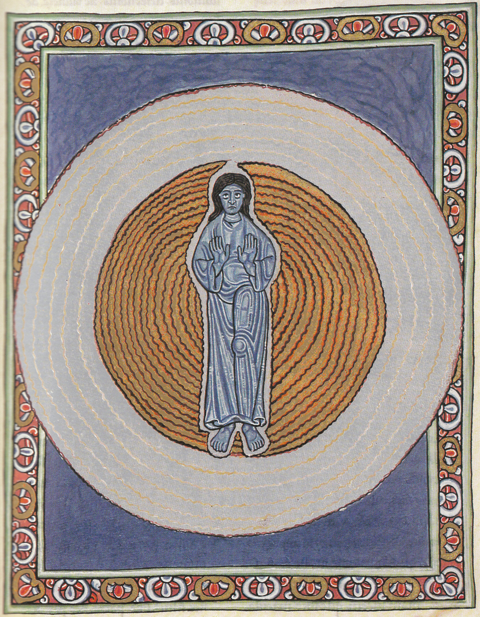 The Trinitate. Vision Scivias II, 2. Hildegardis-Codex, ca.1165